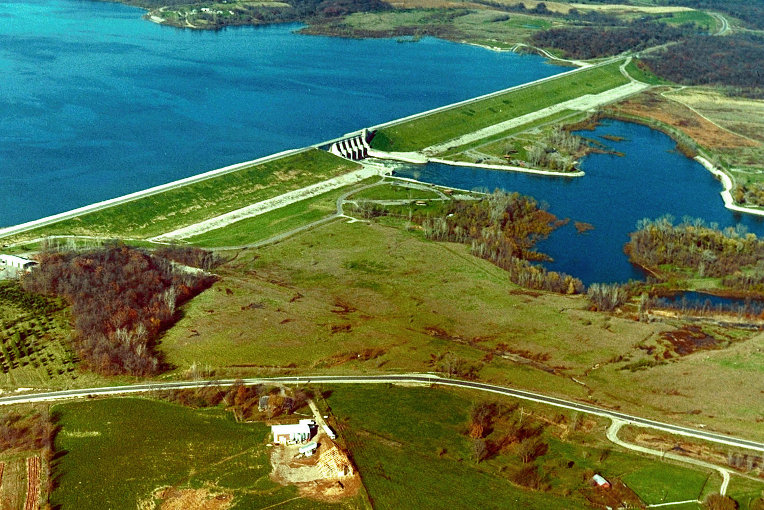 Red Rock Dam and Lake, also known as Red Rock Reservoir, on the Des Moines River in Marion County, Iowa. The U.S. Army Corps of Engineers constructed the dam in 1969 for flood control on the Des Moines River. The dam is located approximately 36 miles (58 km) east-southeast of the city of Des Moines, Iowa. County highway T15 crosses the dam. View is to the north. Photograph color-corrected by contributor. Coordinates: 41°22′10.77″N 92°58′49.85″W / 41.3696583°N 92.9805139°W